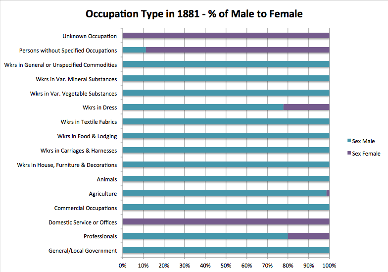 A historical occupation graph from 1881 containing data for Ditton Priors, generated on Excel.